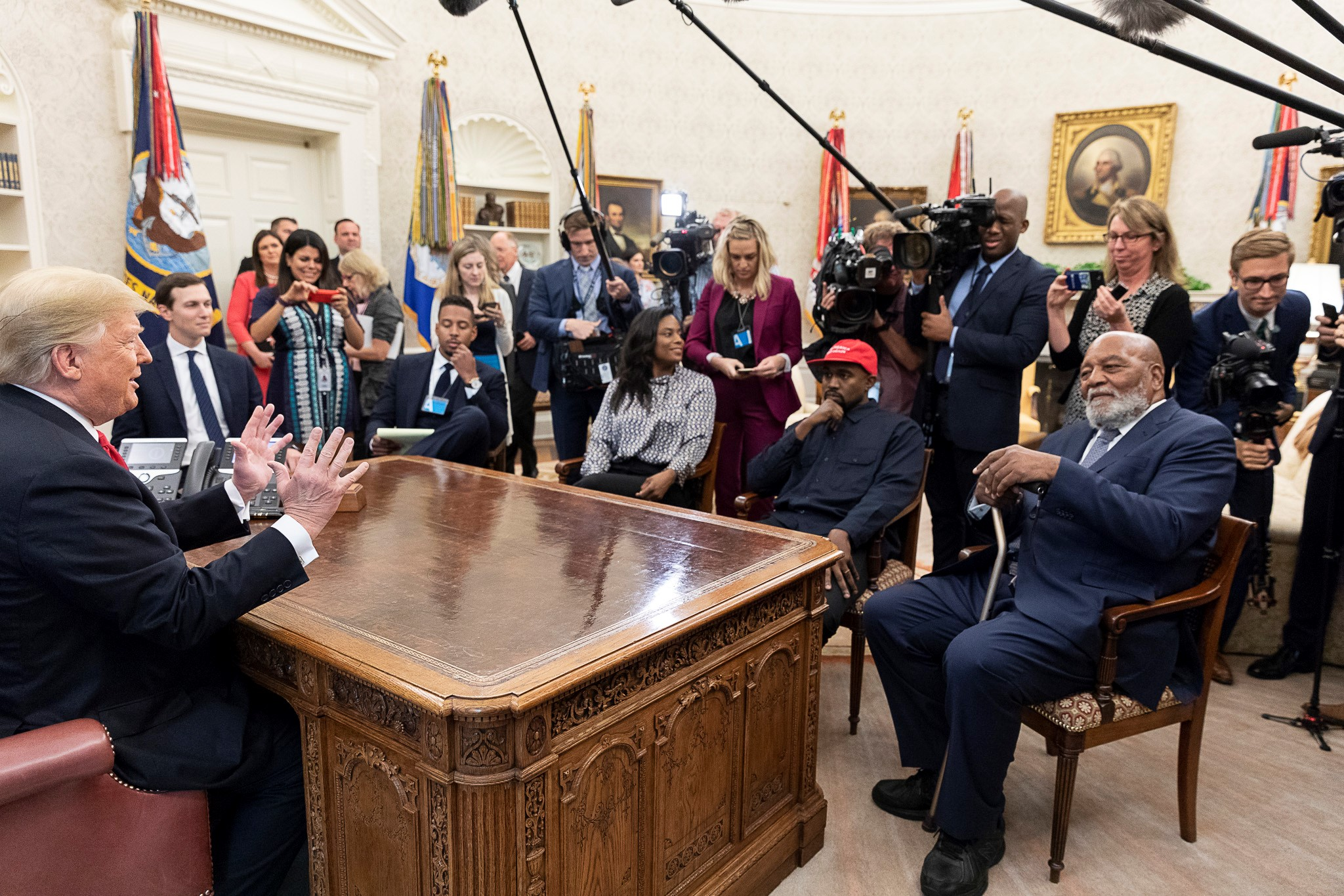 President Donald J. Trump and Kanye West in the Oval Office, 2018-10-11.